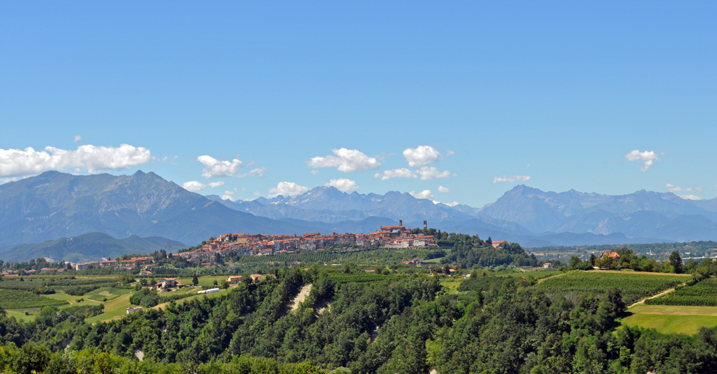 The town of Mondovì in Piemonte